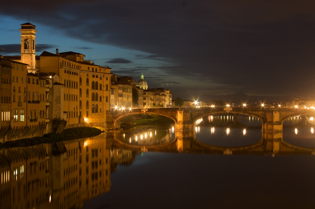 Santa Trinita Bridge, Florence